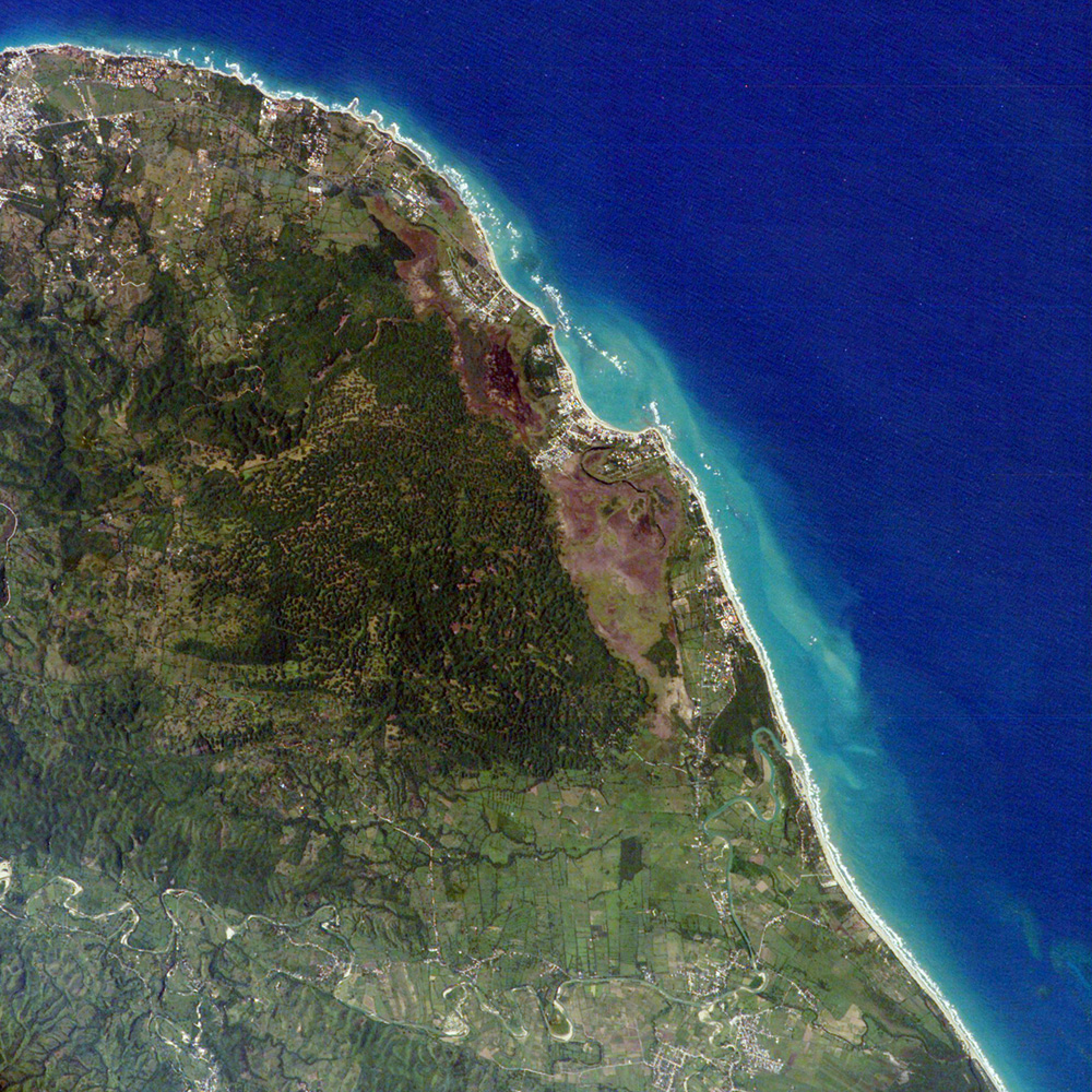 Astronaut photo of the northern coast of the Dominican Republic, with Cabarete Bay, the city of Cabarete, and the Cordillera Septentrional mountain range labelled.